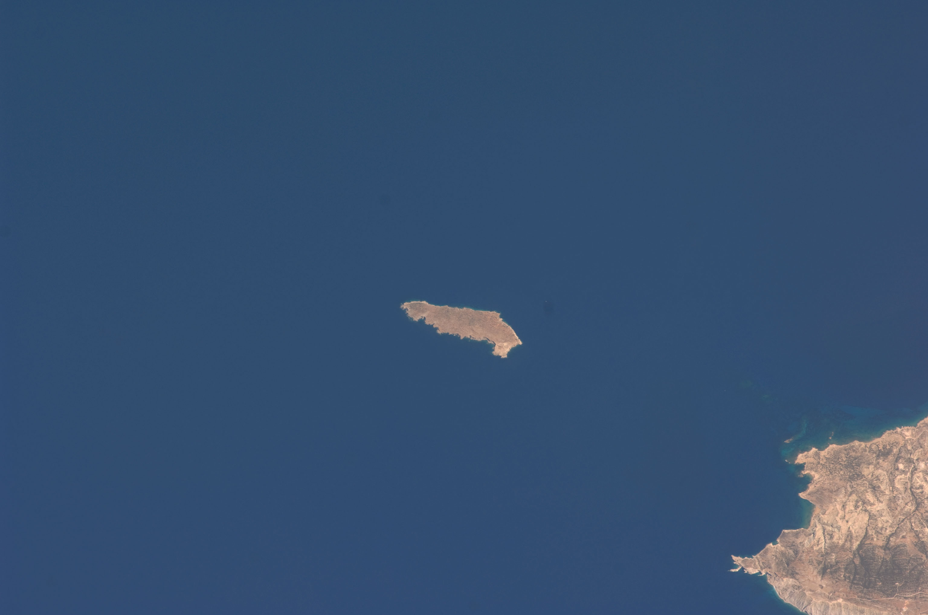 Mission: ISS017 Roll: E Frame: 12894 Mission ID on the Film or image: ISS017 Country or Geographic Name: CRETE Features: GAVDOPOULA ISLAND Center Point Latitude: 34.9 Center Point Longitude: 24.0 (Negative numbers indicate south for latitude and west for longitude) Image Science and Analysis Laboratory, NASA-Johnson Space Center. "The Gateway to Astronaut Photography of Earth." (10/04/2009 12:32:00) . Send questions or comments to the NASA Responsible Official at Curator: Earth Sciences Web Team Notices: Web Accessibility and Policy Notices, NASA Web Privacy Policy